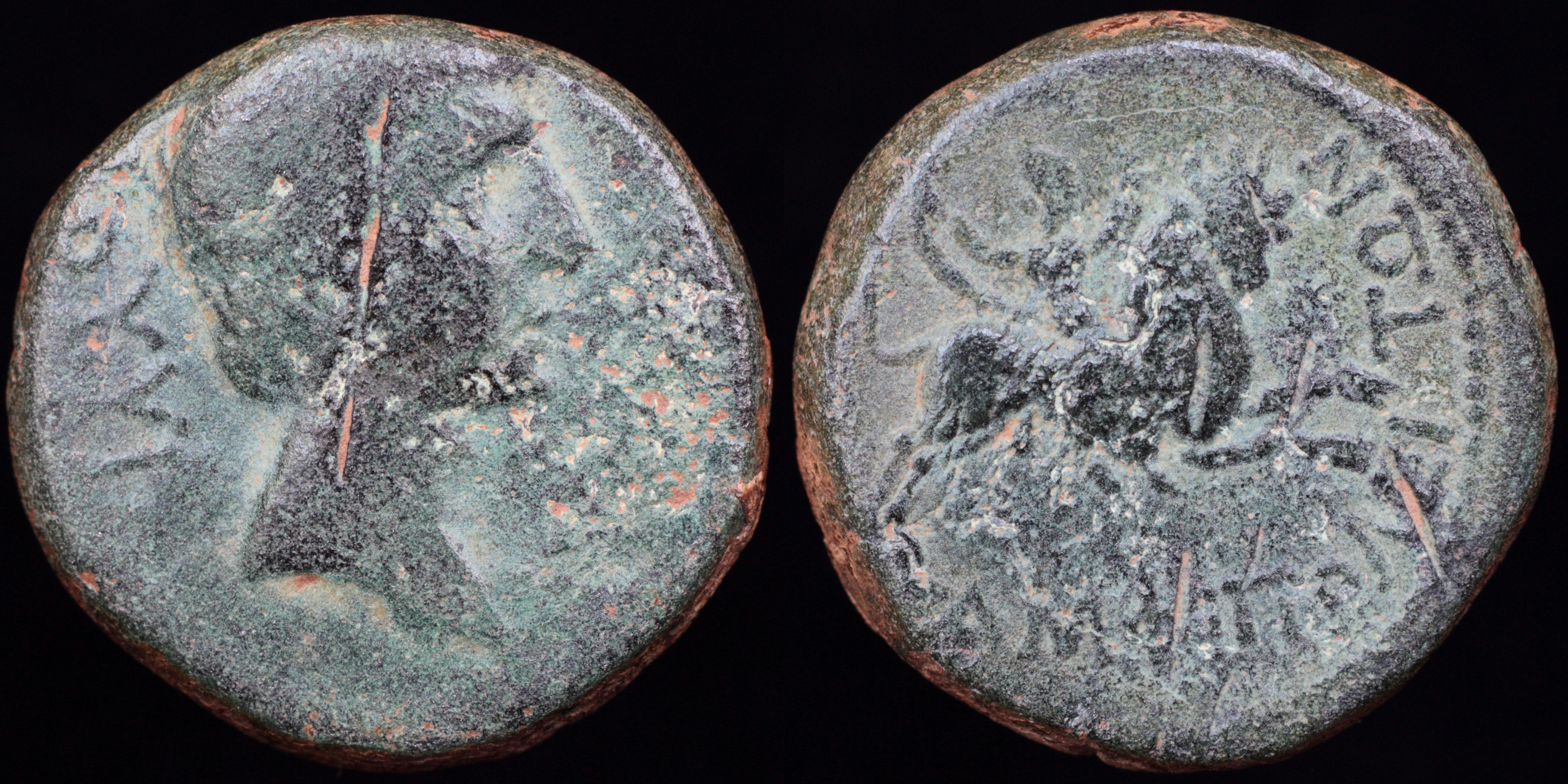 coin from Amphipolis